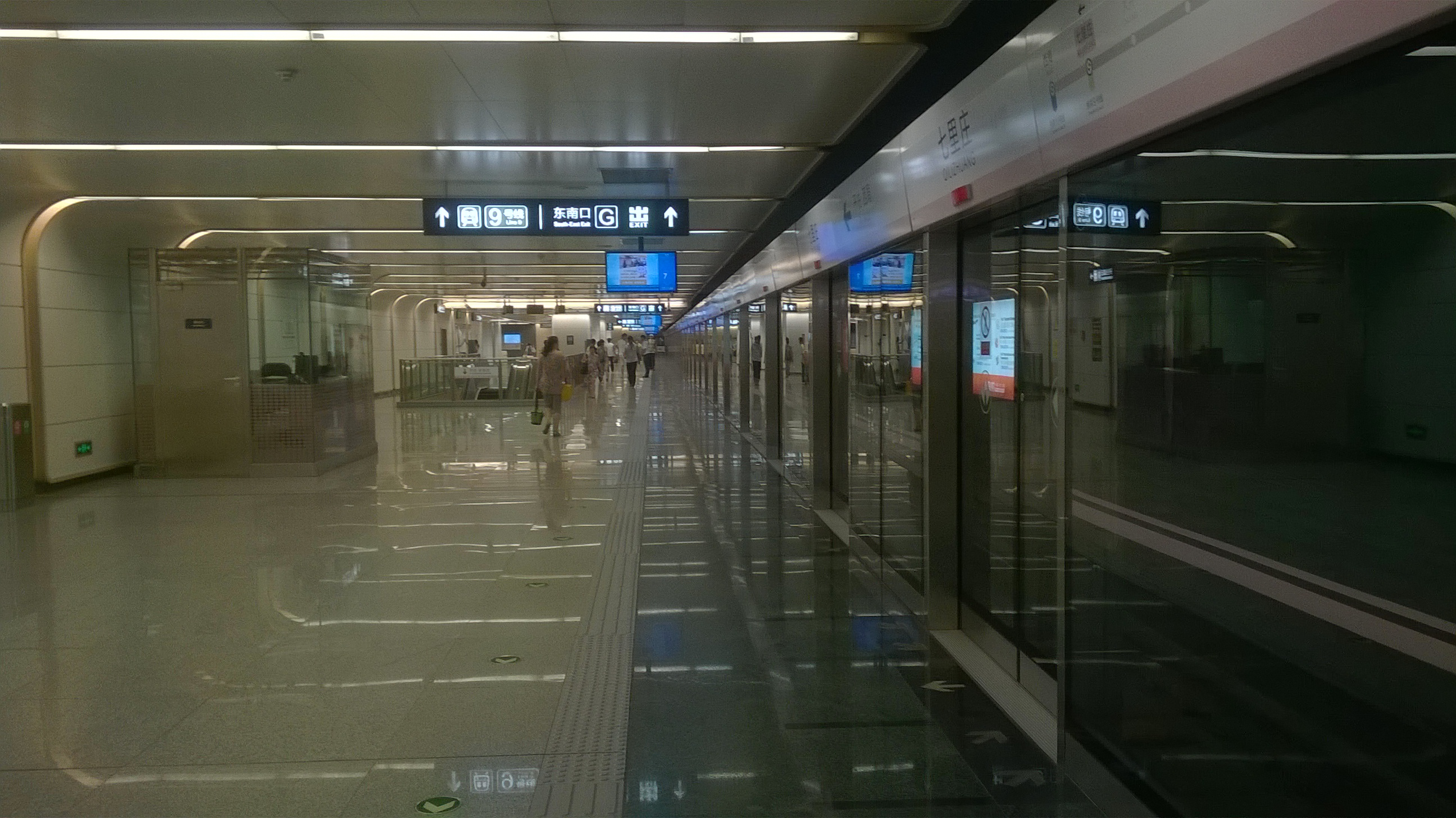 platform (for Xiju direction) of Qilizhuang Station, Line 14, Beijing Subway